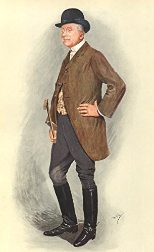 Caricature of Sir Alfred Turner Vanity Fair 8 Jun 1910. Caption read "Versatility"